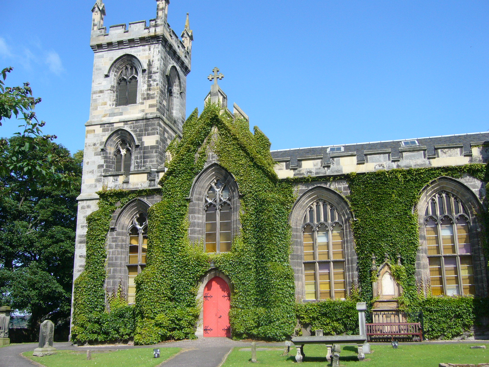 The original foundation was a chapel from the 12th-century reign of David I which became a rectory for the collection of tithes. After the Reformation it became the parish kirk for the village of Liberton, about two miles south of Edinburgh. The present building is a remodelling completed by James Gillespie Graham in 1815.